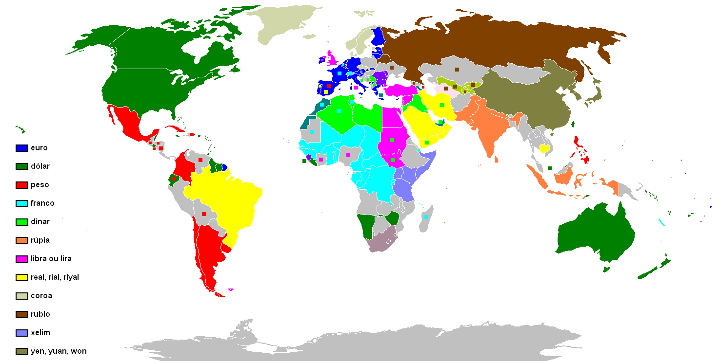 World map with countries colored according to their respective names of currencies (considering cognates, translations and etymons of the same name). Includes caption in Portuguese.